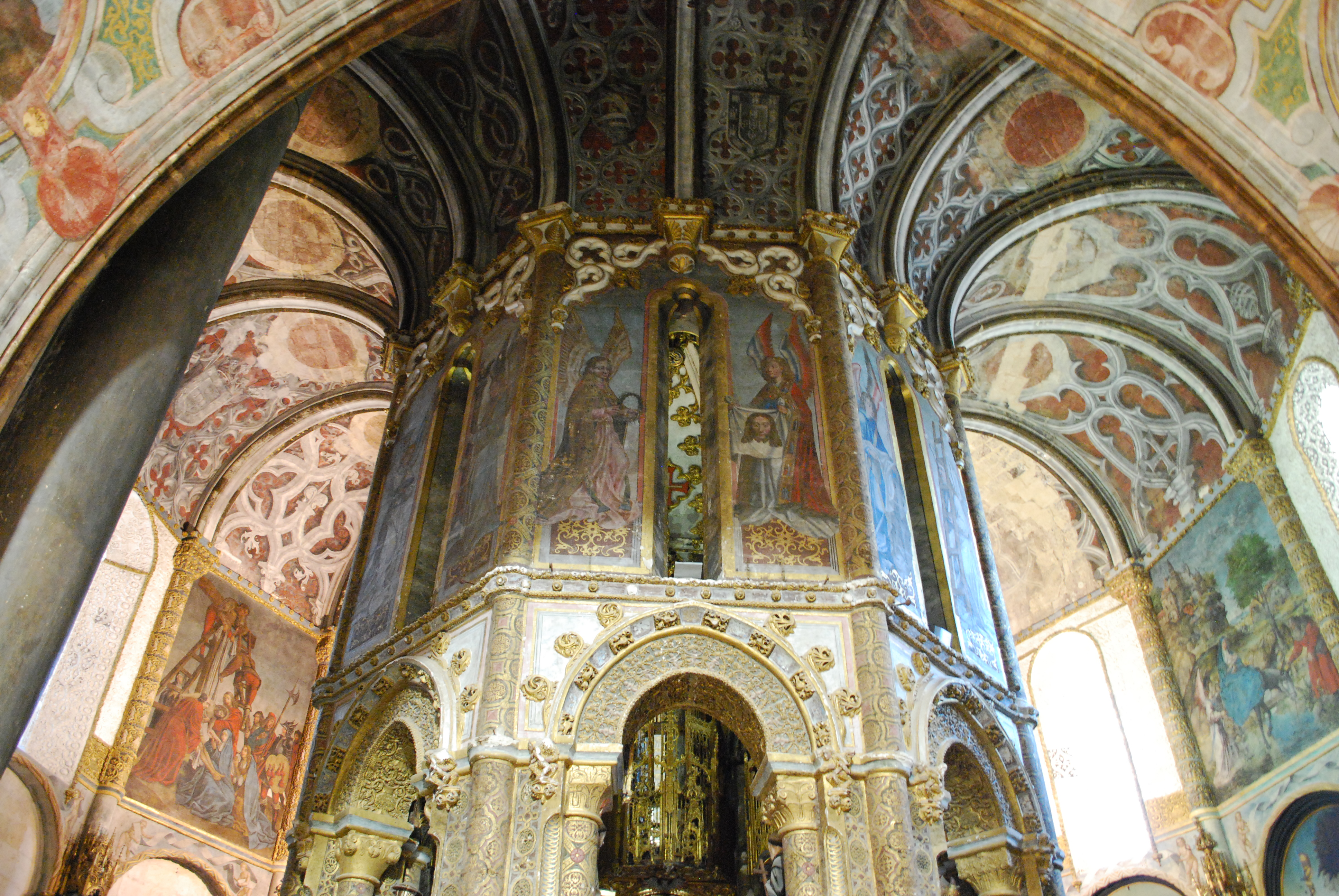 This file was uploaded for Wiki Loves Monuments in Portugal with the unique identifier 70237.